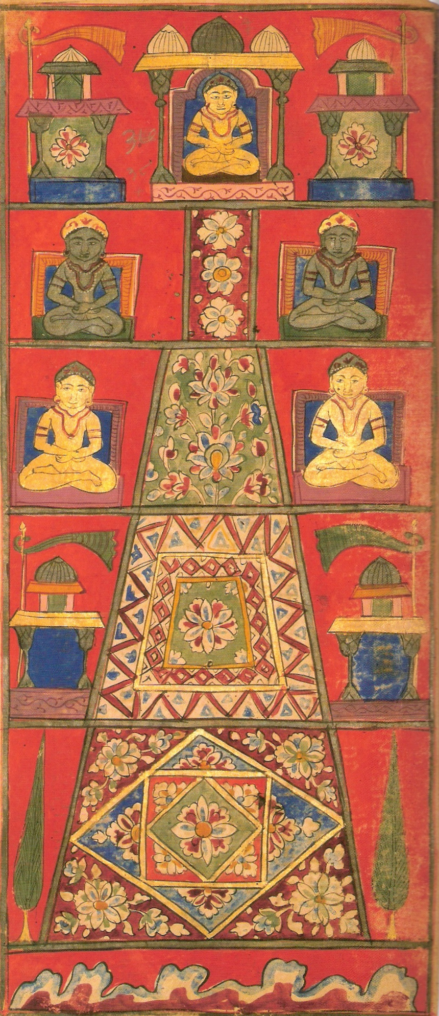 Painting of Mount Meru from Samghayanarayana loose-leaf manuscript India; ca. 17th century Ink, opaque watercolor, and gold on paper.